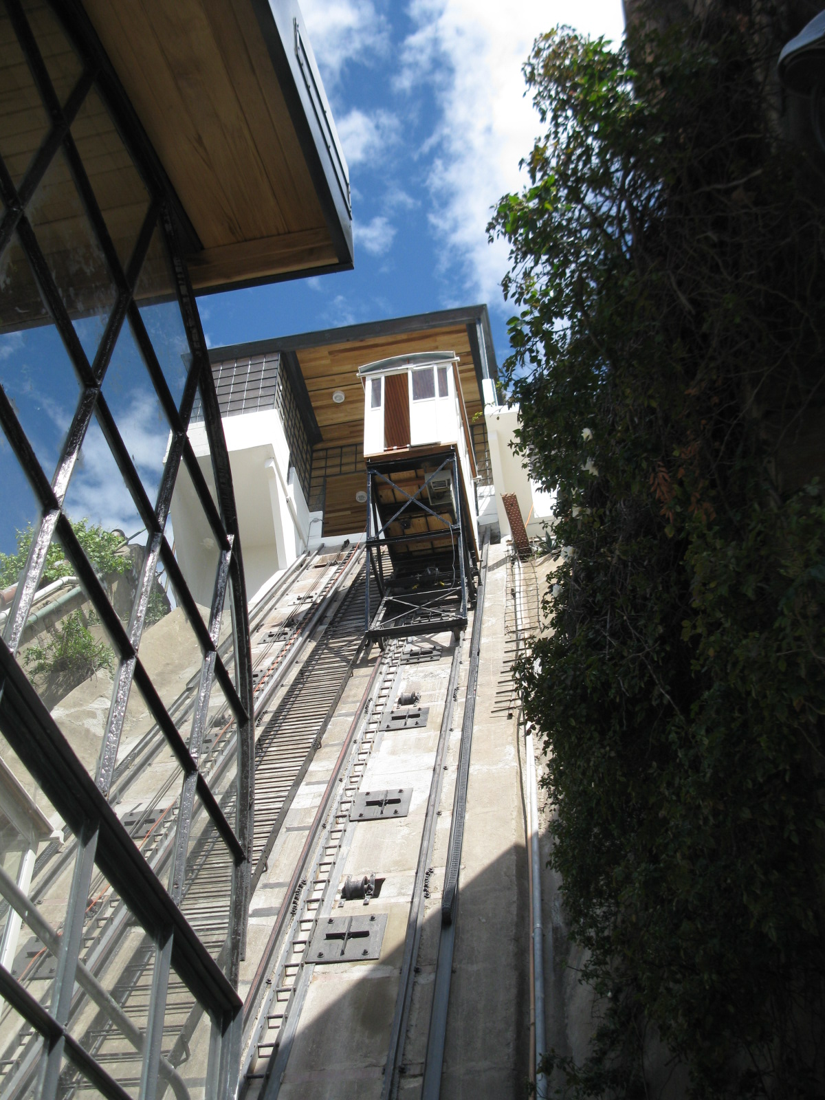 This is a photo of a national monument in Chile: 2174